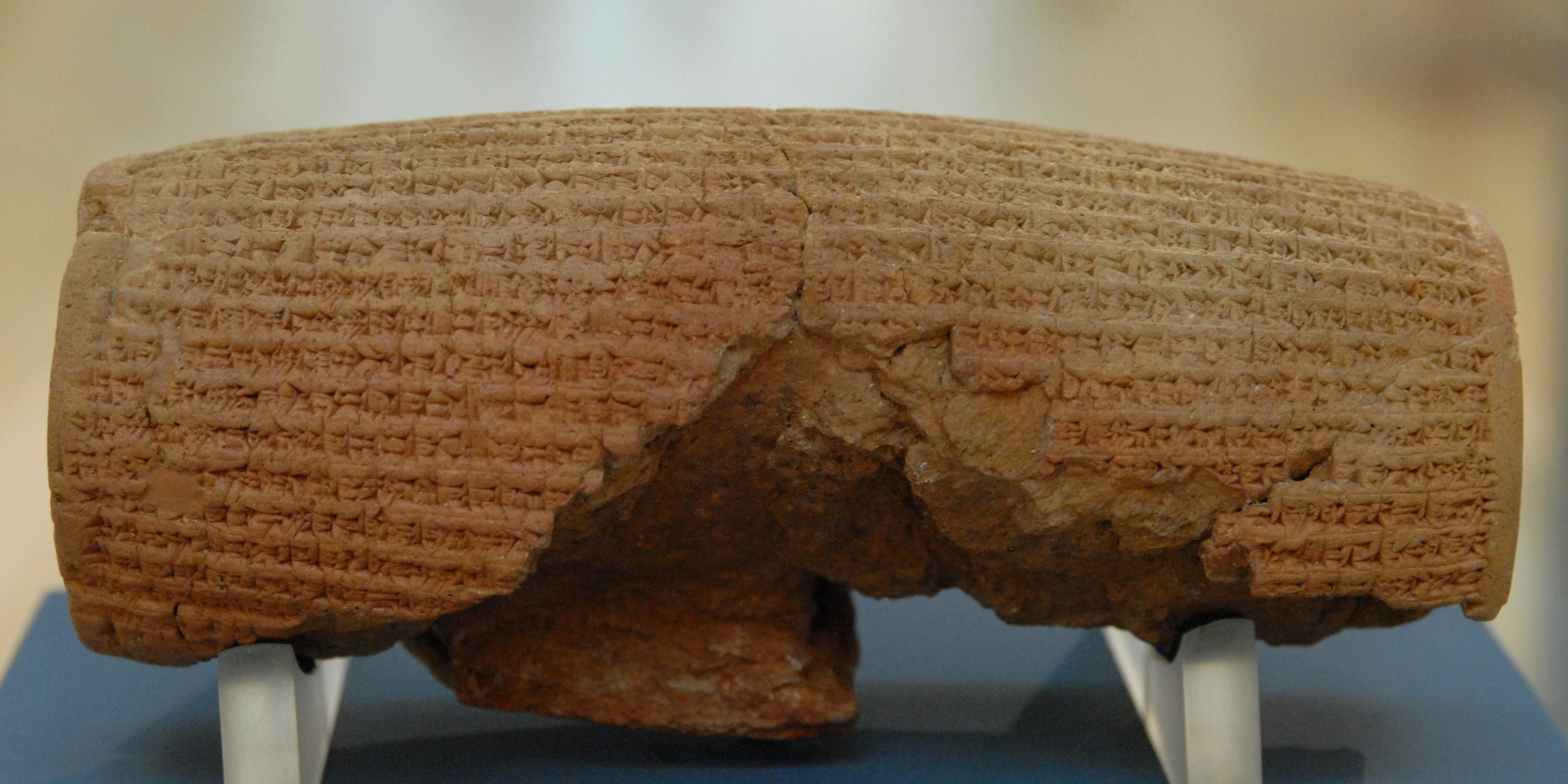 Cyrus Cylinder. Terracotta, Babylonian, ca. 539-530 BC. From Babylon, southern Iraq.